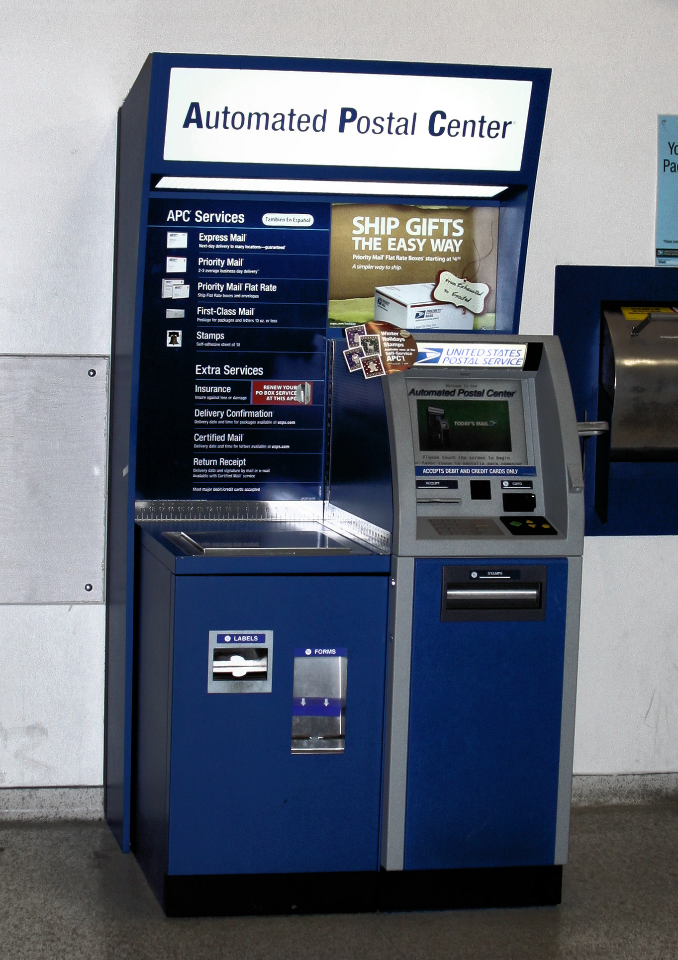 An APC - Automated Postal Center - at the Webster Main Post Office (77598)